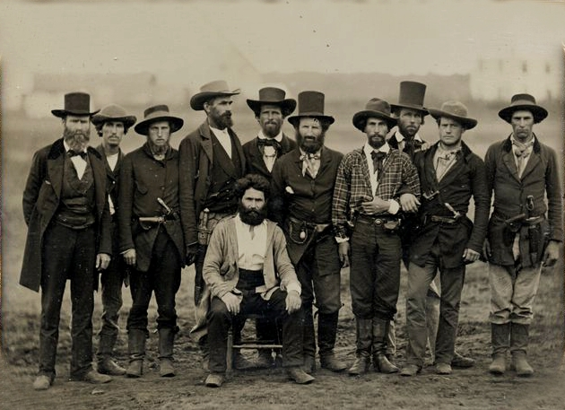 John Doy and rescue party, Lawrence, Kansas Territory, summer of 1859: (from left to right) Major James B. Abbott, Captain Joshua A. Pike, Jacob Senix, Joseph Gardner, Thomas Simmons, S. J. Willis, Captain John E. Stuart [Stewart], Charles Doy, Silas Soule, George R. Hay, and Dr. John Doy (seated in front), by Amon Gilbert DaLee, Kansas Historical Society